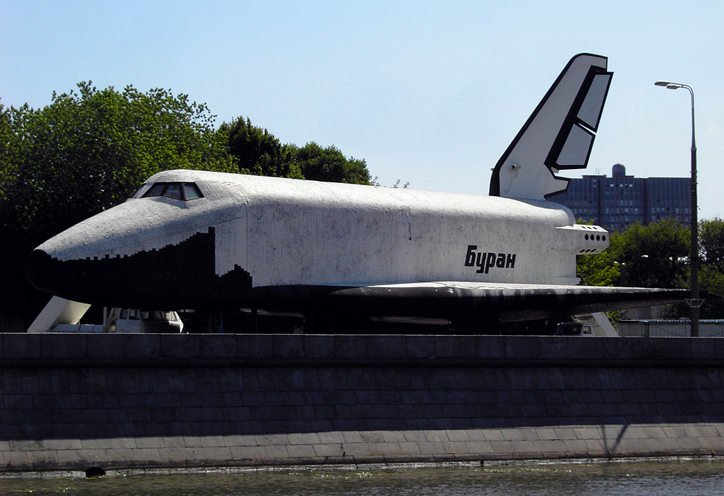 Mock-up of Russian Spacecraft Buran (OK-TVA) on display at Gorki-Park, Moscow.